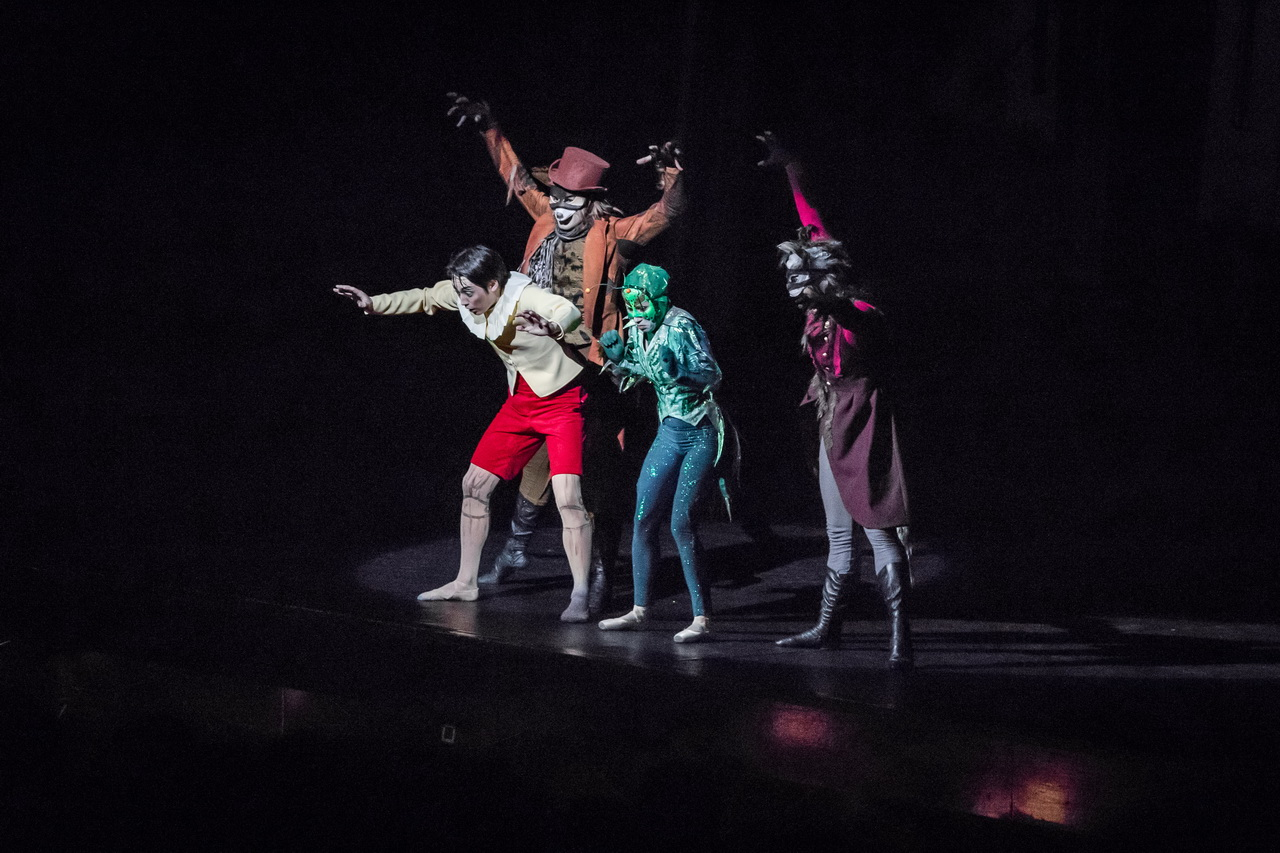 Pinocchio, ballet composed by Nodar Chanba, libretto written by Dragan Jerinkić; Ballet of the Serbian National Theatre, Pinocchio, Ballet of the SNT, Novi Sad, 2018; Naojuki Acumi, Teona Radanović, Samjuel Bišop, Aleksandar Bečvardi Srpski (latinica): Pinokio, balet kompozitora Nodara Viktoroviča Čambe, libreto potpisuje Dragan Jerinkić; Balet SNP, Novi Sad, 2018; Naojuki Acumi, Teona Radanović, Samjuel Bišop, Aleksandar Bečvardi Српски (ћирилица): Пинокио, балет композитора Нодара Викторовича Чамбе, либрето потписује Драган Јеринкић; Балет СНП, Нови Сад, 2018; Наојуки Ацуми, Теона Радановић, Самјуел Бишоп, Александар Бечварди